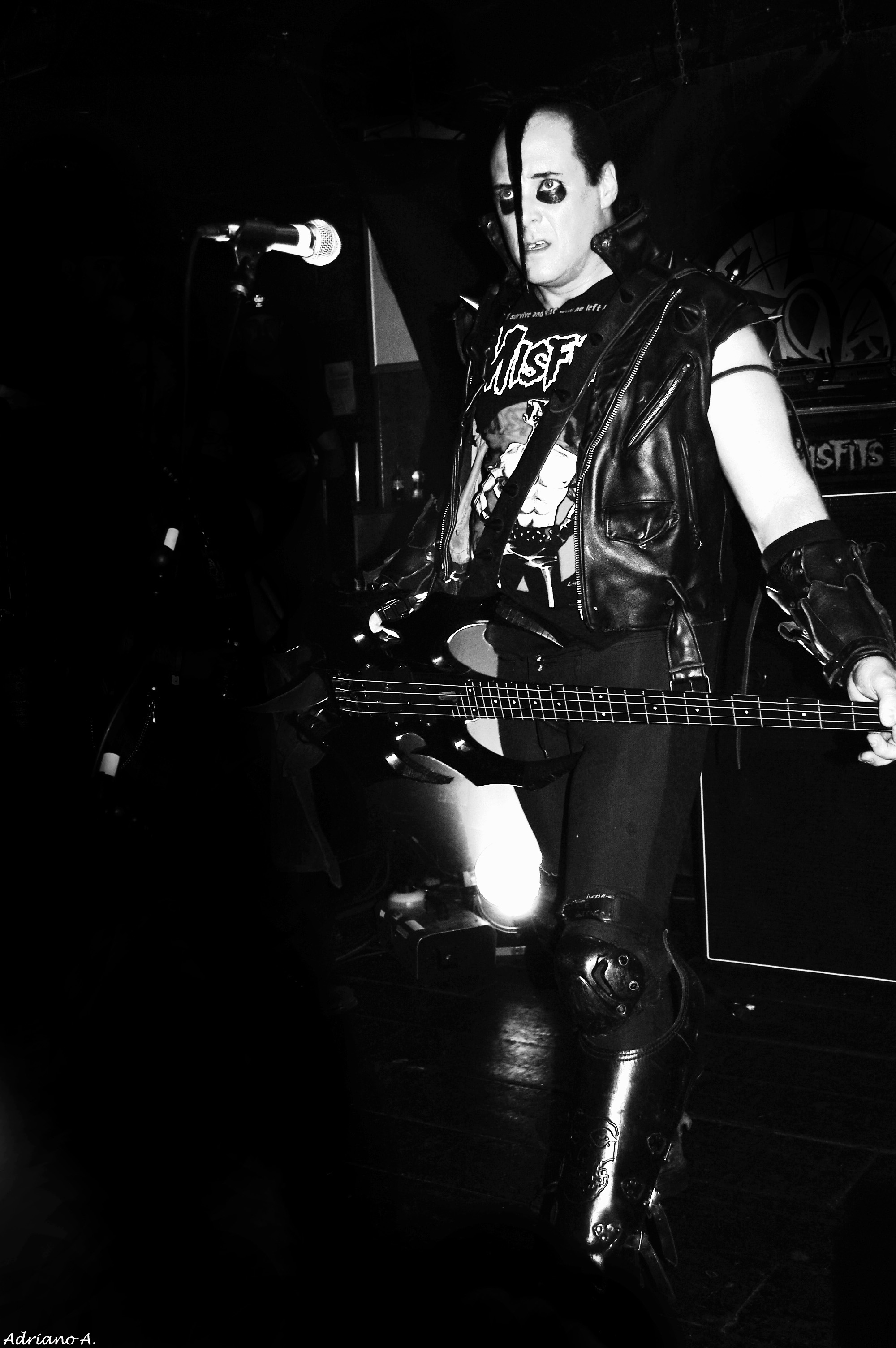 Jerry Only performing live with the Misifts in Sala Copernico, Madrid, April 23, 2008.